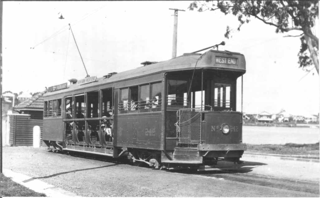 Brisbane Dropcentre Tram No.242 at the New Farm Ferry terminus. The tram is in its original configuration, without enclosed ends.